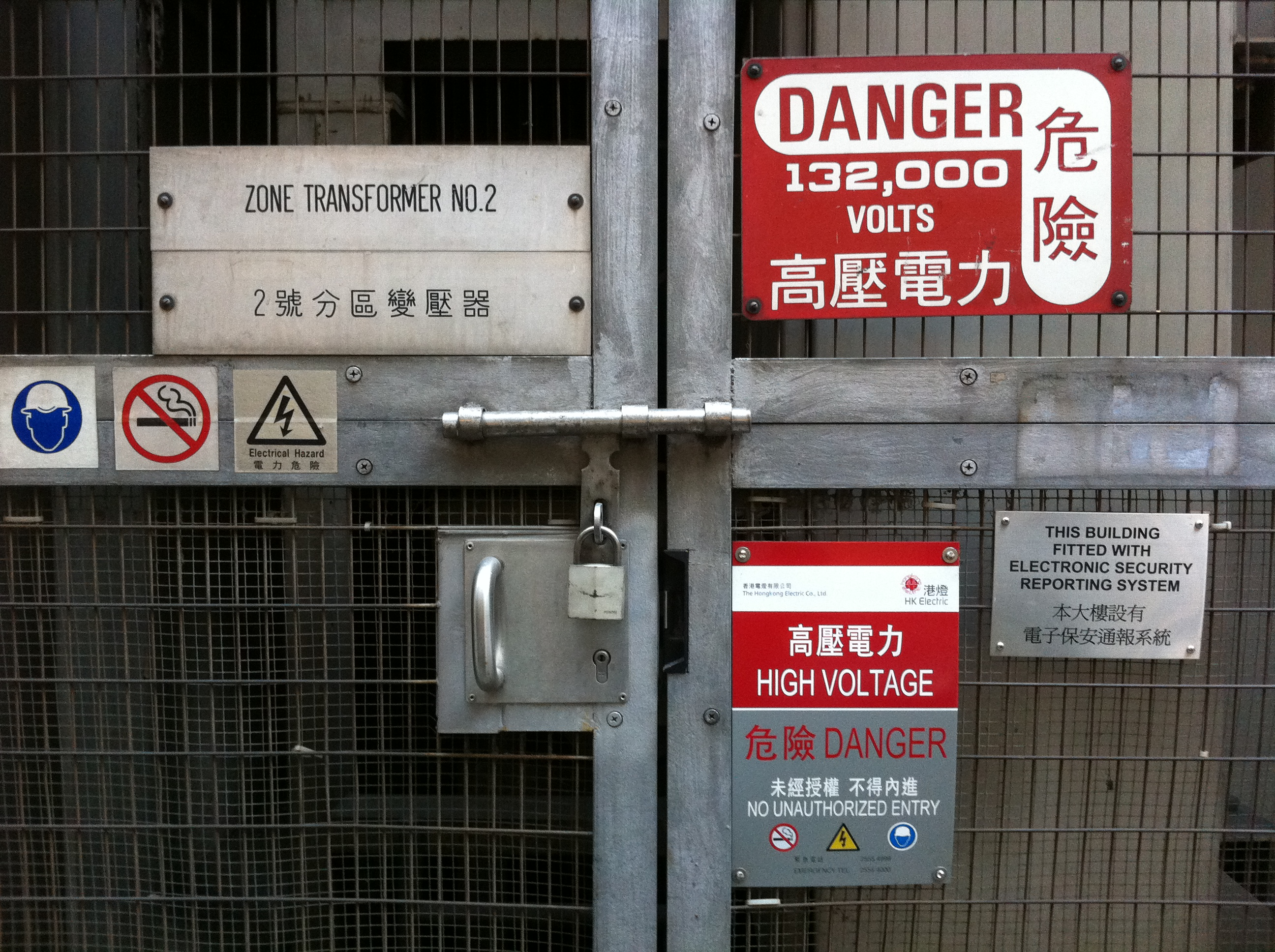 Substation of HK Electric Power Transformer in North Point, Hong Kong